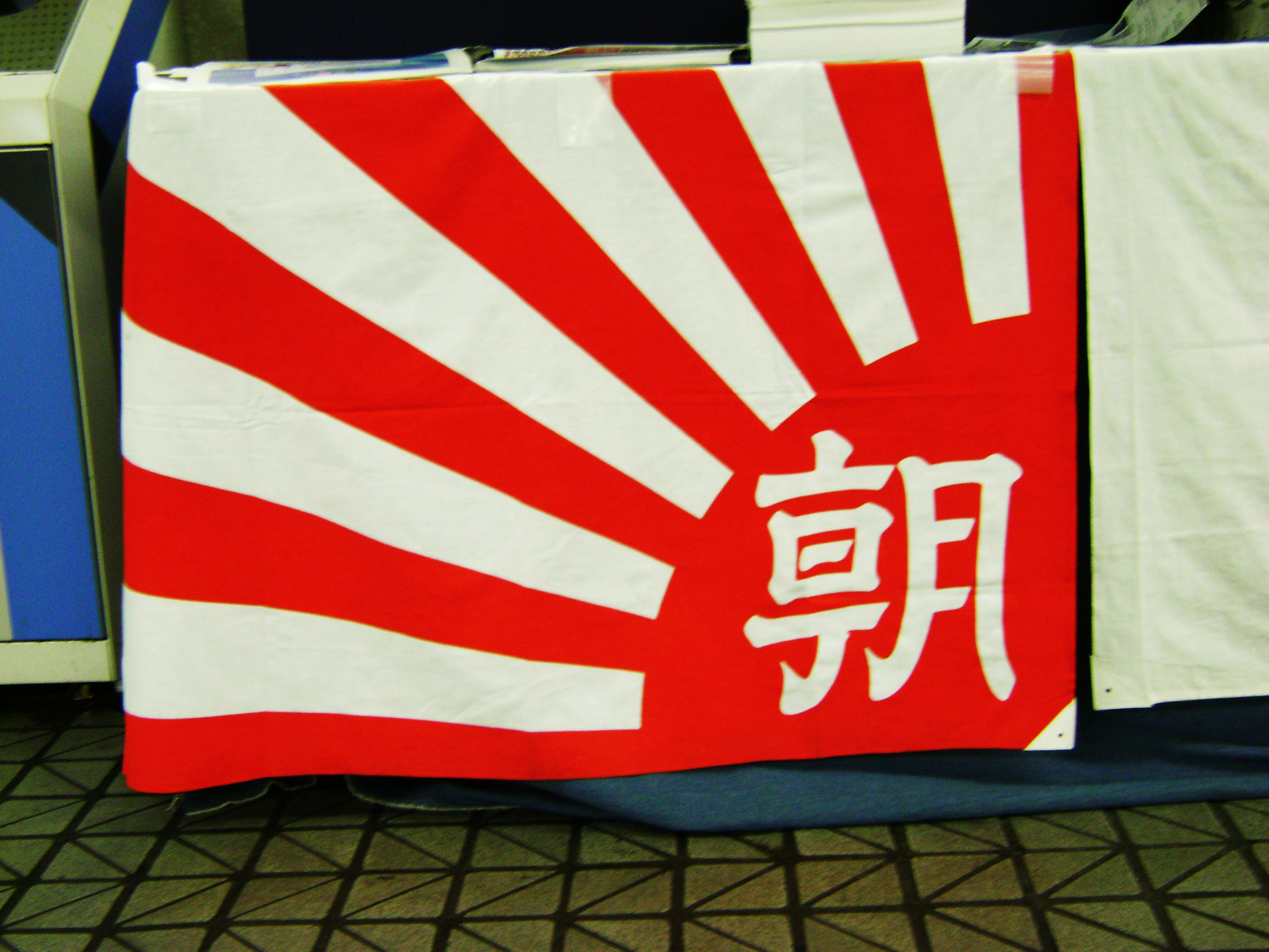 Flag of the Asahi Shinbun Company.